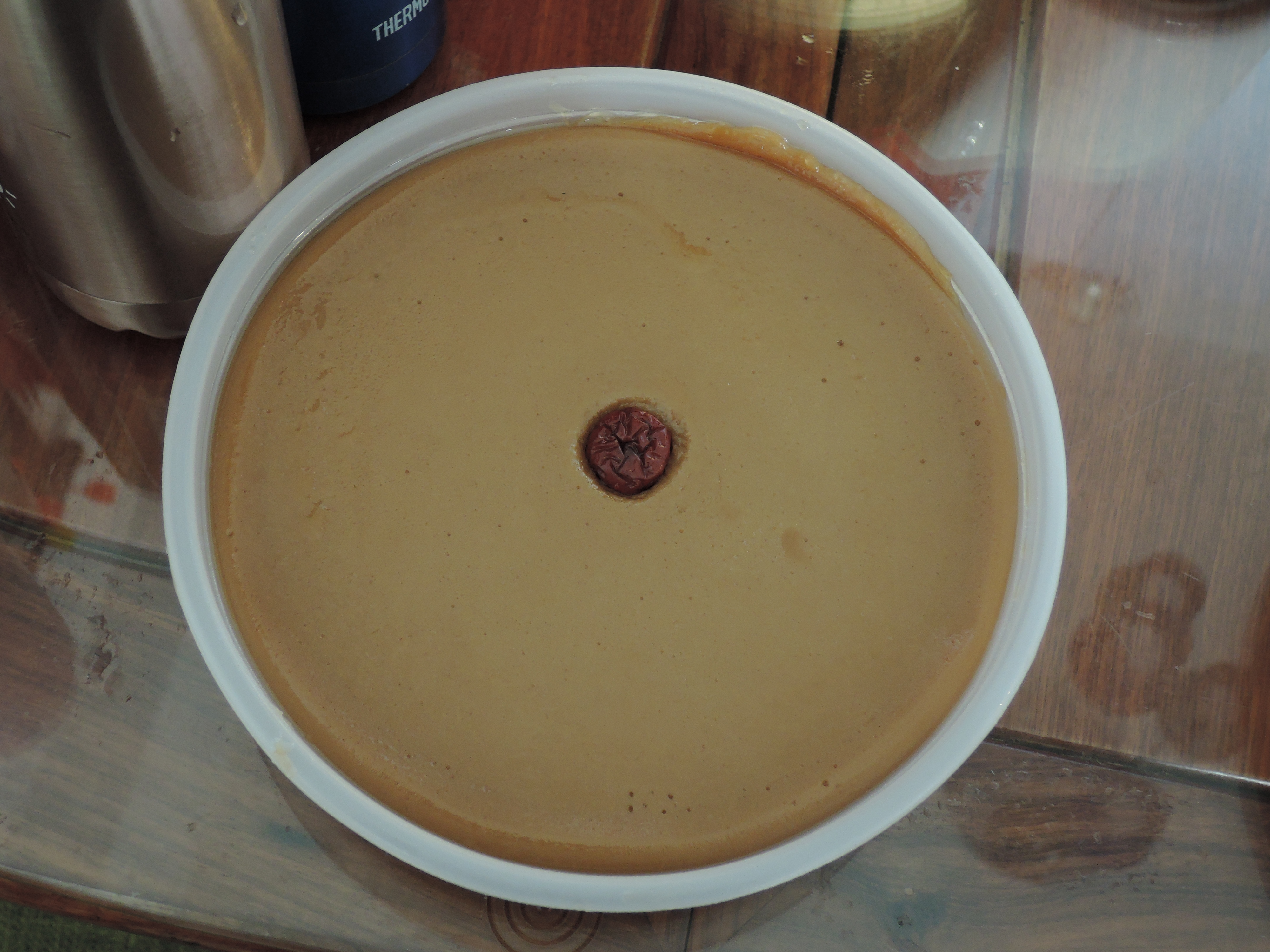 Local chinese Nian gao from Tai Tung Bakery in yuen long